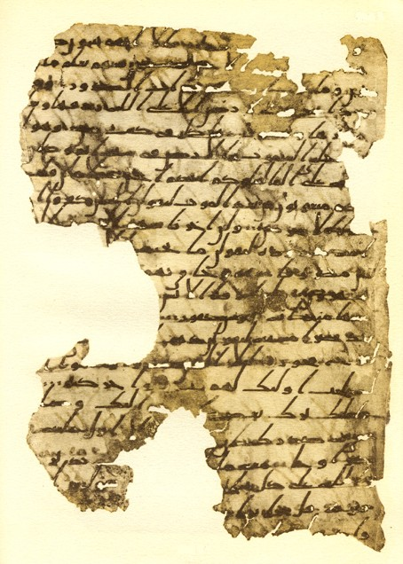 Qur'anic Manuscript written in Hijazi/Mekkan script. Surah Hud verses 4 to 13. Location: Biblioteca Apostolica Vaticana [Vatican Library, Vatican City].